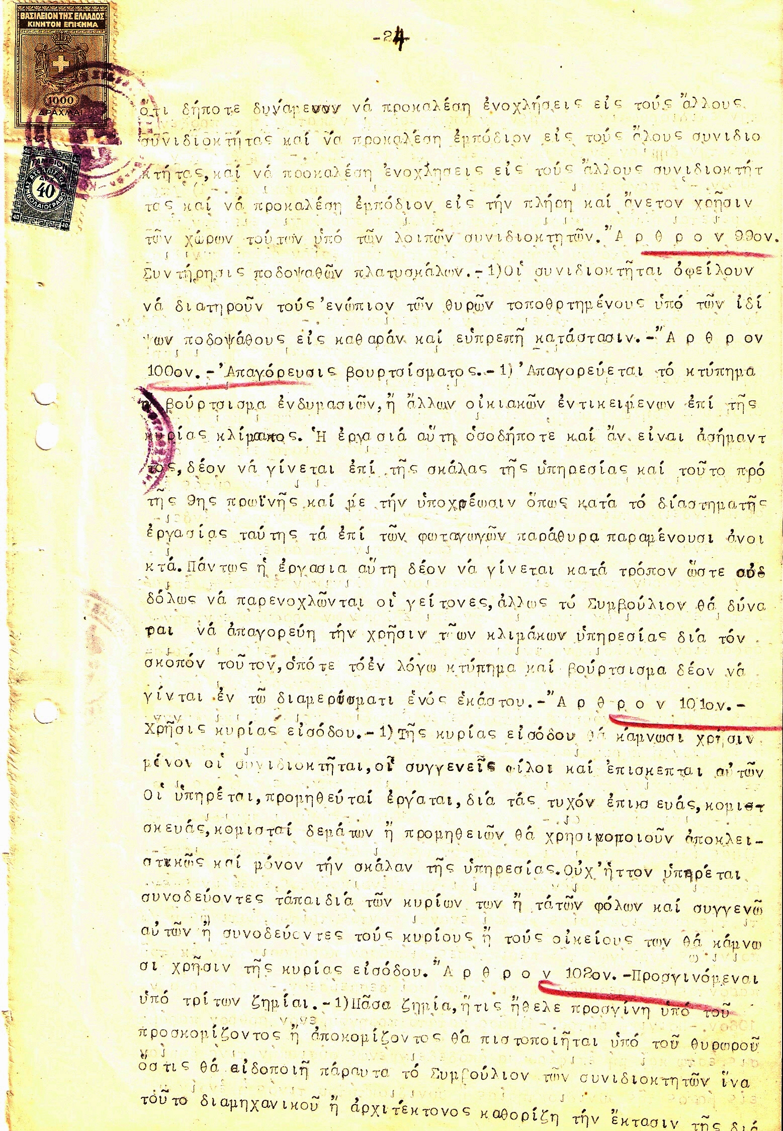 Regulation of an old condominium in Athens, Greece.